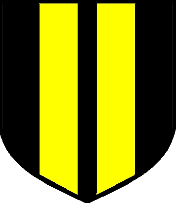 Coat of arms of the noble family of Freckleben